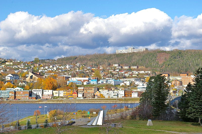 View of the north part of the Gaspé Bay in Québec (Canada).